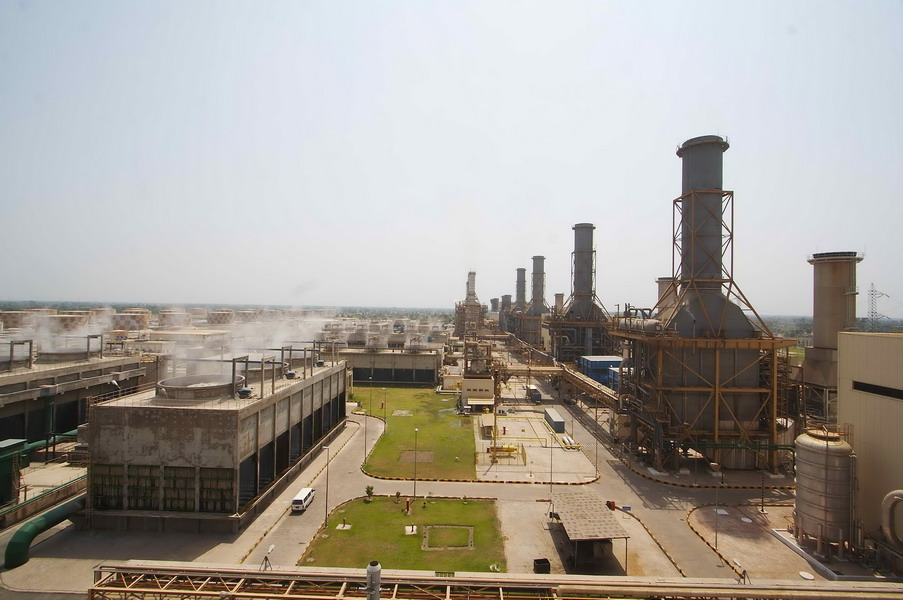 The Guddo Thermal Power Plant is a thermal power station located in Sukkur, Sindh, Pakistan.